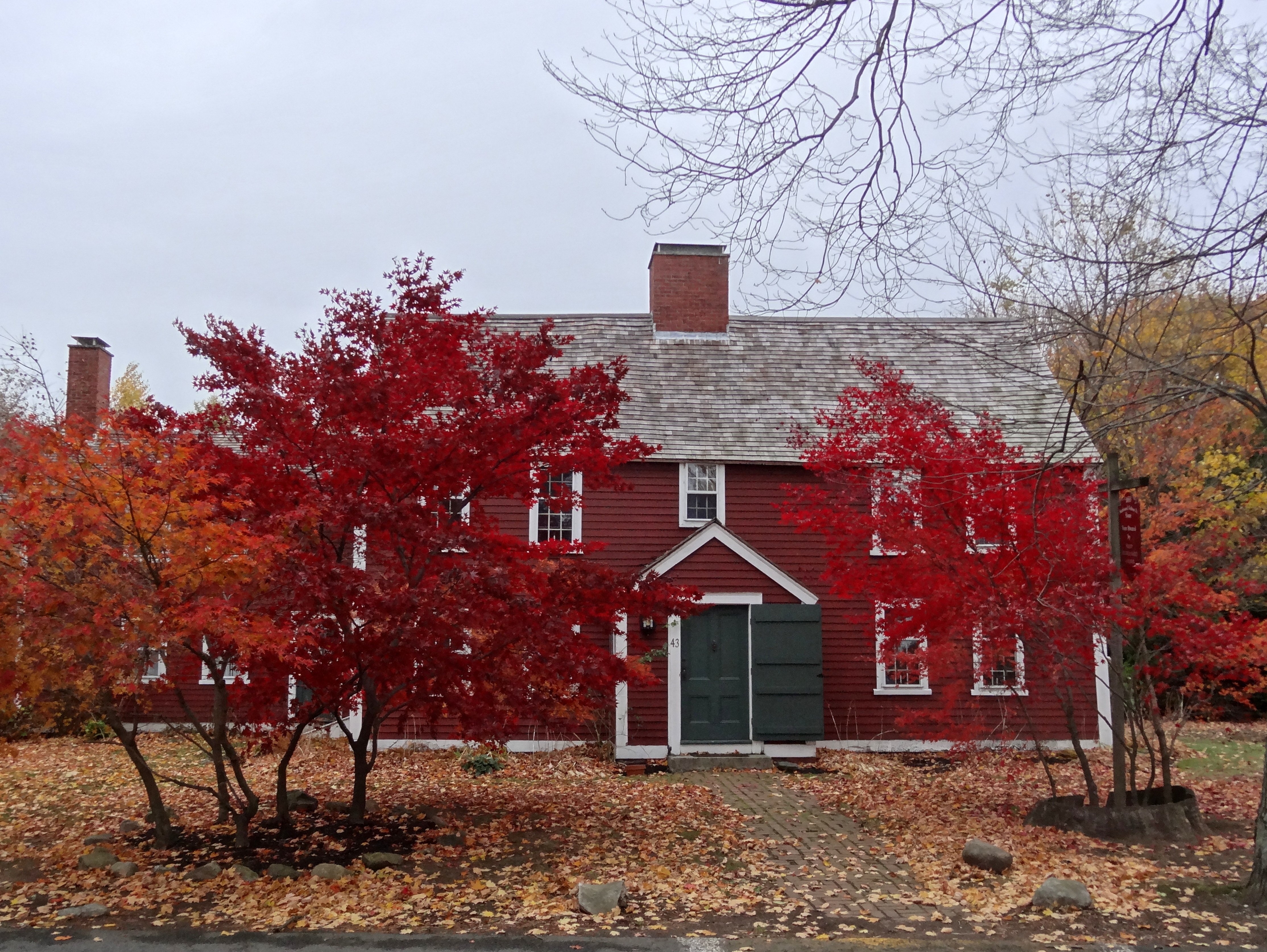 Felton-Smith Historic Site (Peabody Historical Society and Museum Felton Street Peabody, Massachusetts The Felton-Smith Historic Site is owned and operated by the Peabody Historical Society